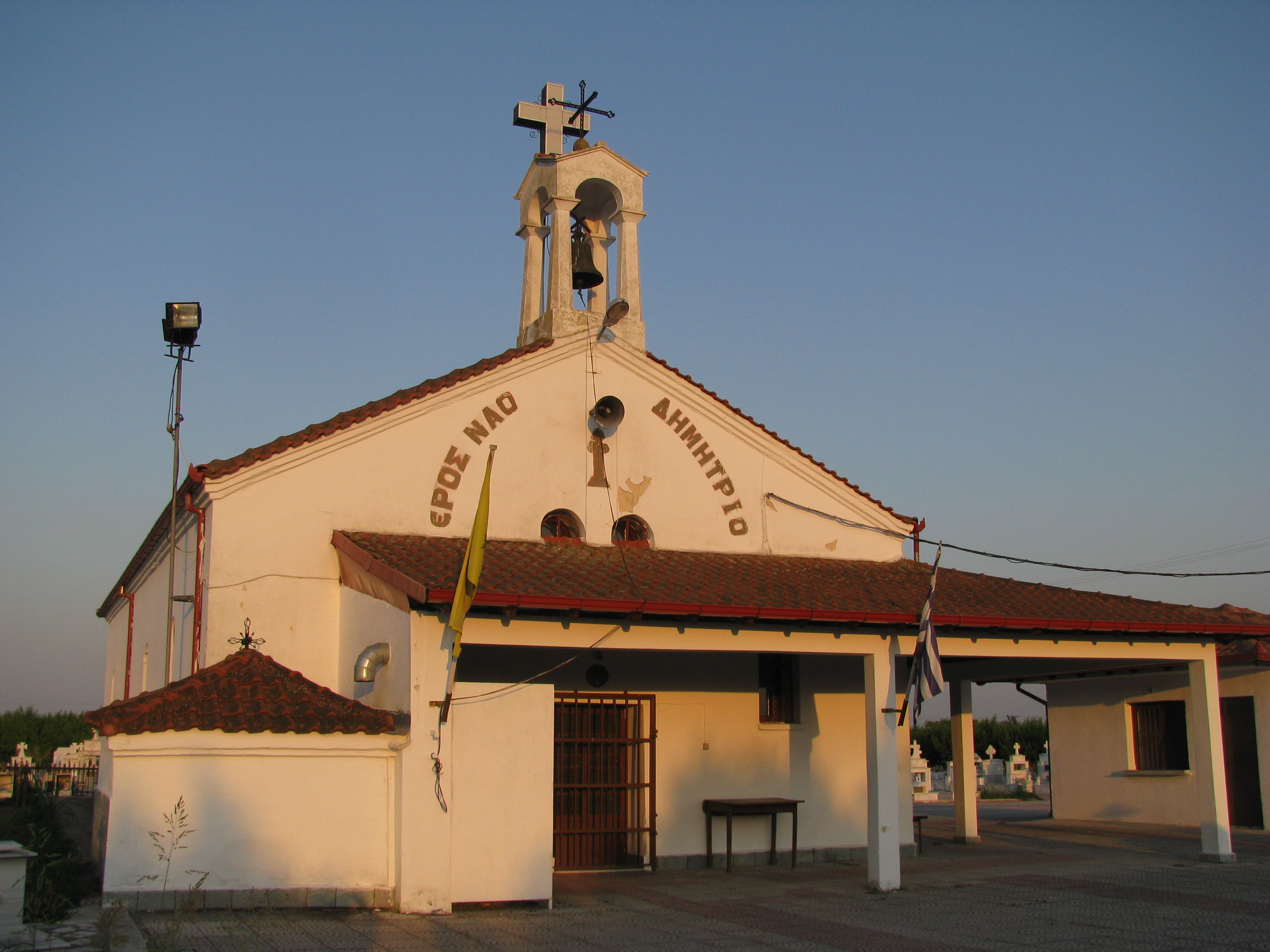 Church St. George between vilages Vehti Enidzhe (Aksos) and Pondohori